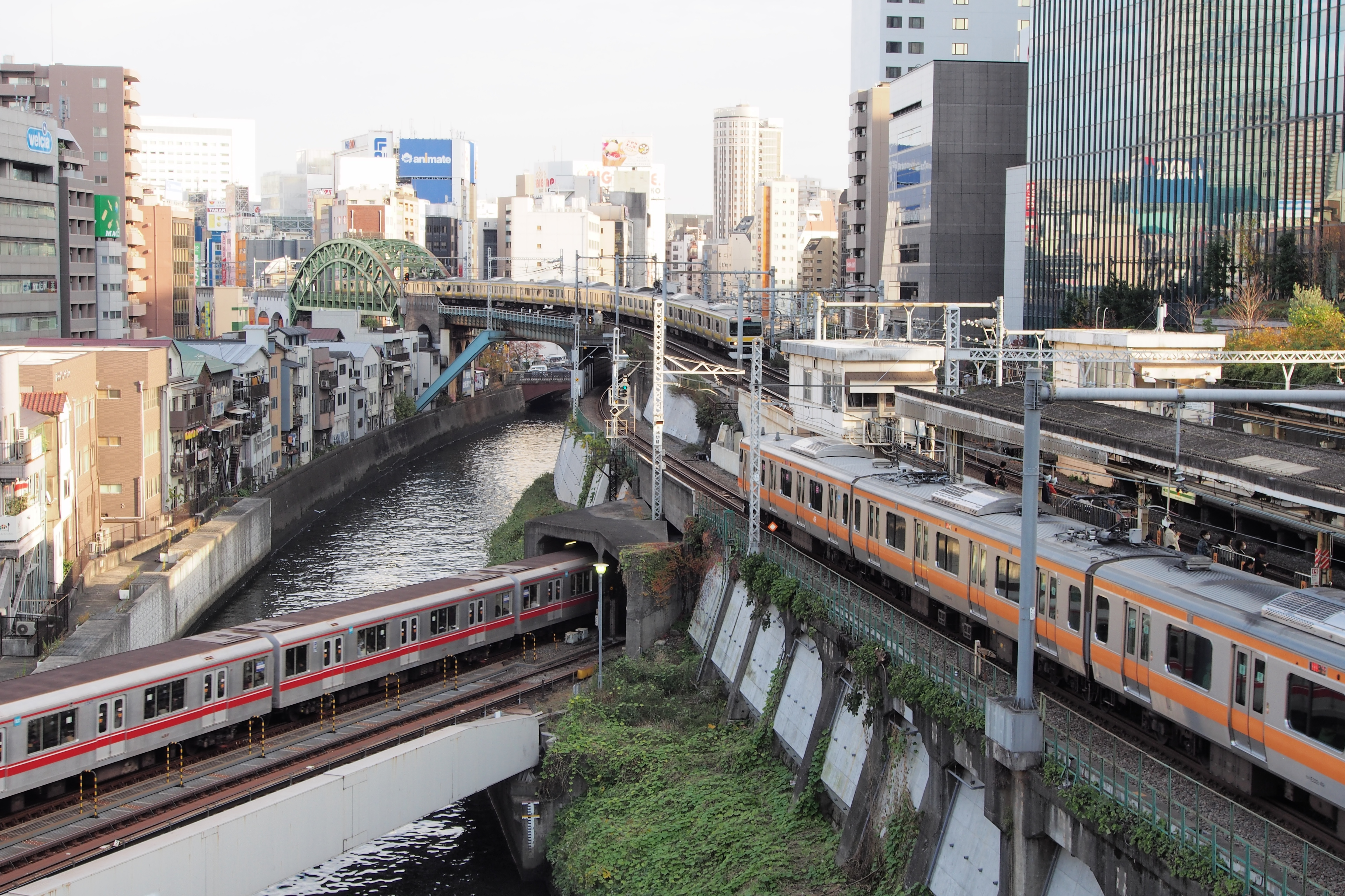 Ochanomizu Station, Kanda River, November 2017